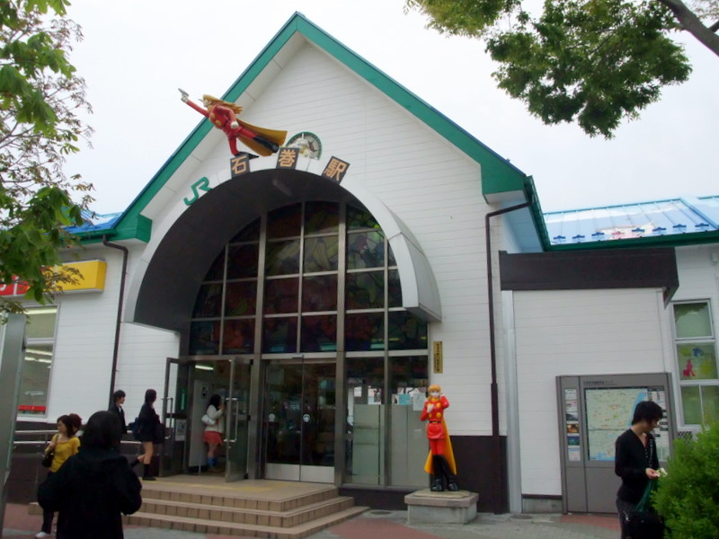 Entrance of Ishinomaki Station in Miyagi Prefecture